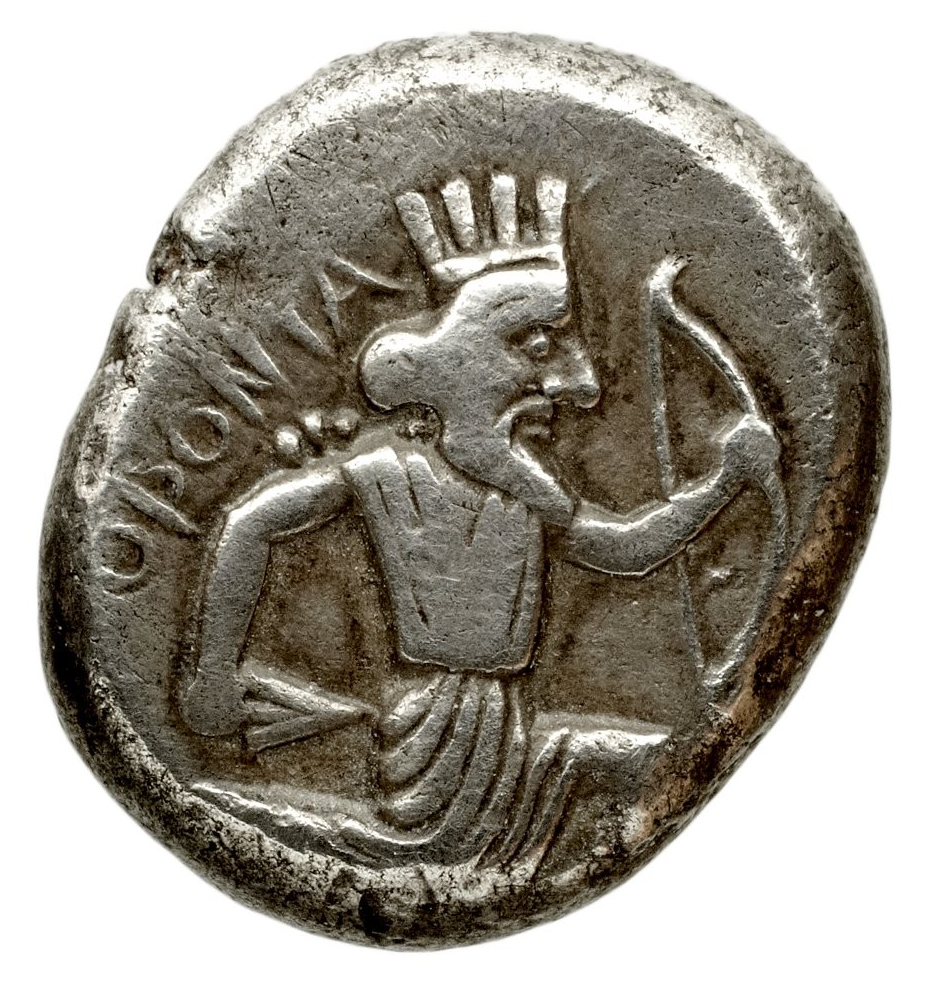 Orontes coin with running Achaemenid king